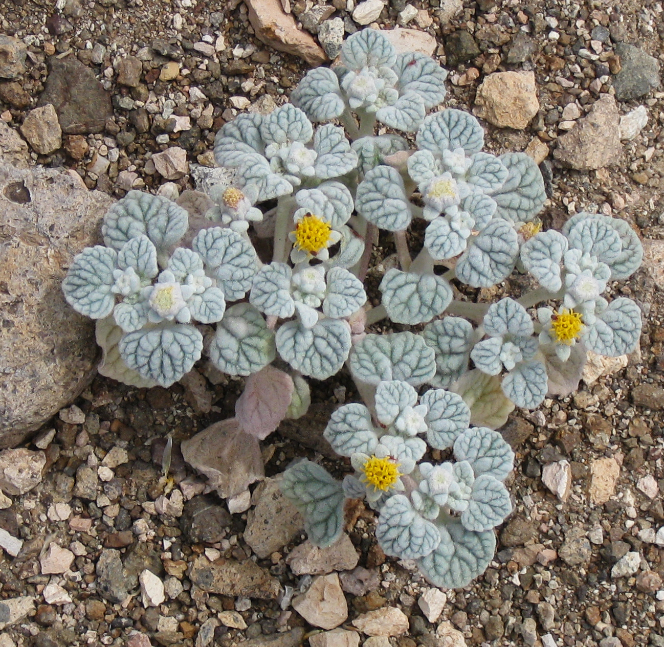 Turtleback (Psathyrotes ramosissima) small plant, flowering in the 2016 Death Valley superbloom. Altitude 800 ft (240 m) in wash along Artist Drive.